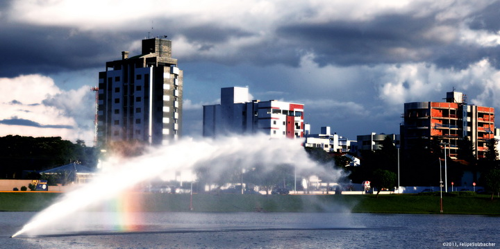 Municipal Lake of Toledo City